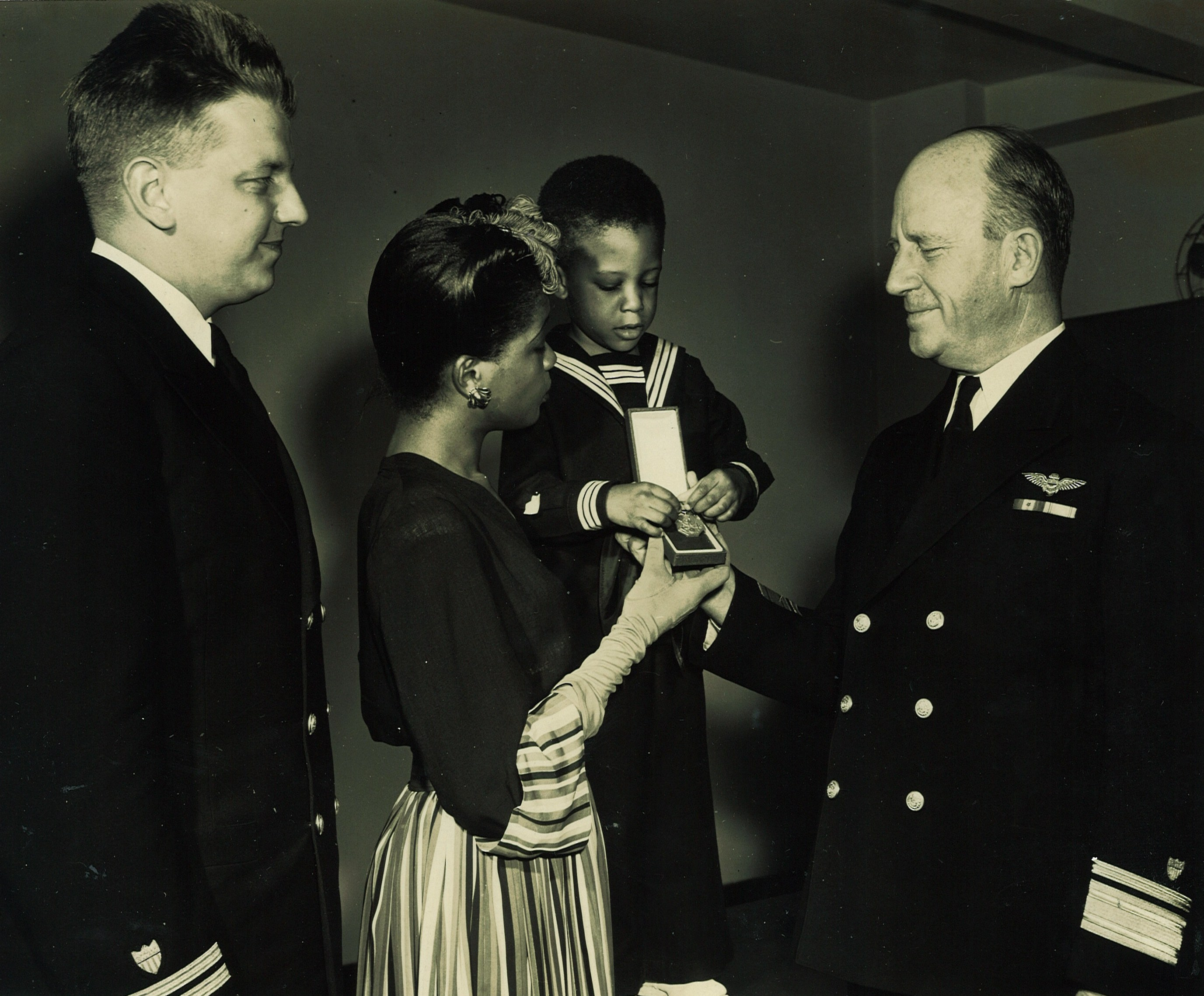 Kathleen David, widow of Charles David receives honors he earned for his heroism. Original caption: “Kathleen, David’s wife and Neil, David’s son received David’s Navy and Marine Corps Medal at a ceremony in 1944. U.S. Coast Guard photo.”